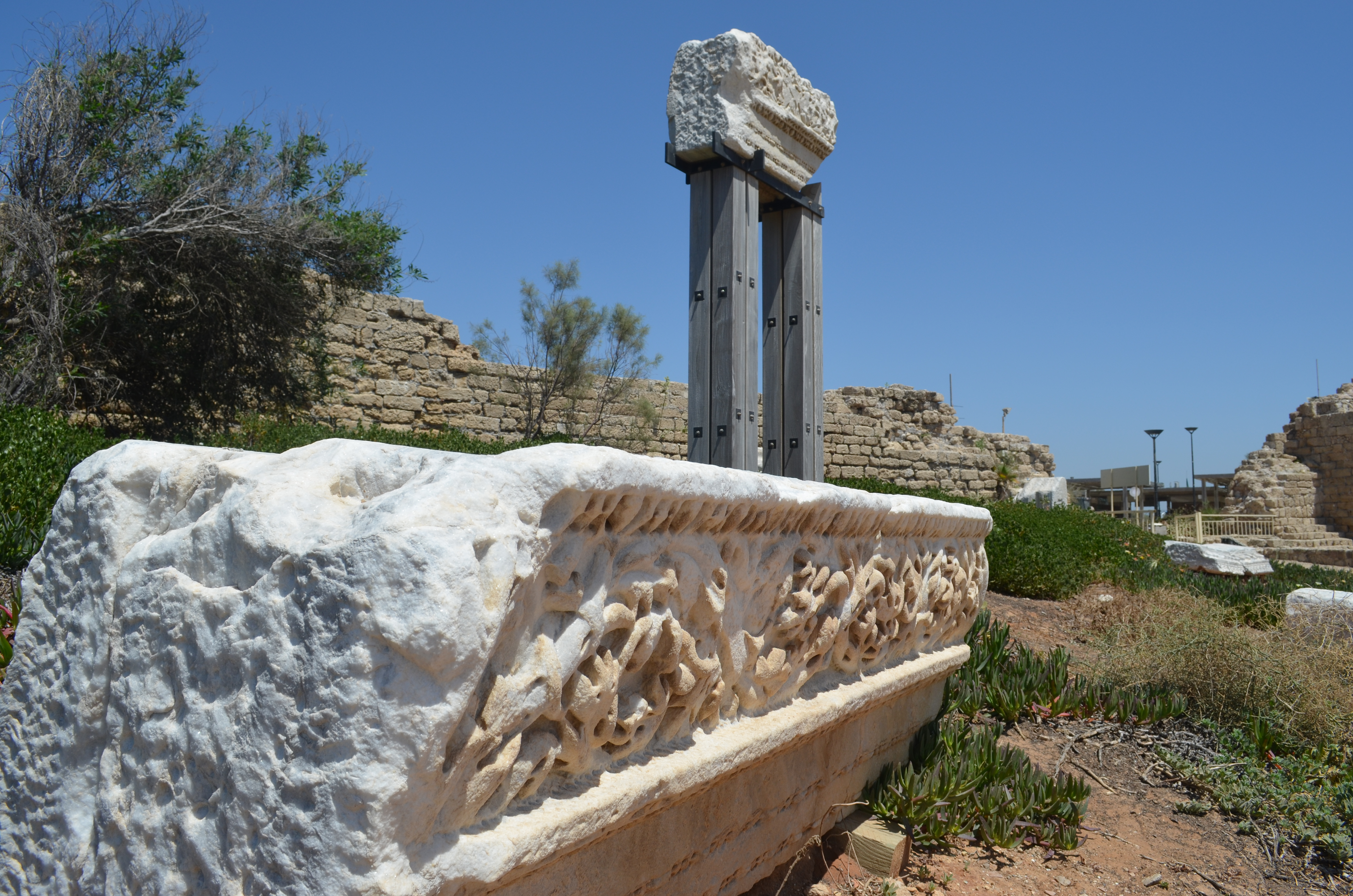 Two of several entablatures on display at Casaerea Maritima. The foremost of these provides close-up views of its parts: The "architrave" is the lowest, least pretty part that would rest directly on the column. Above that is the decorative band called the "frieze." The part that juts out along the top is the "cornice."